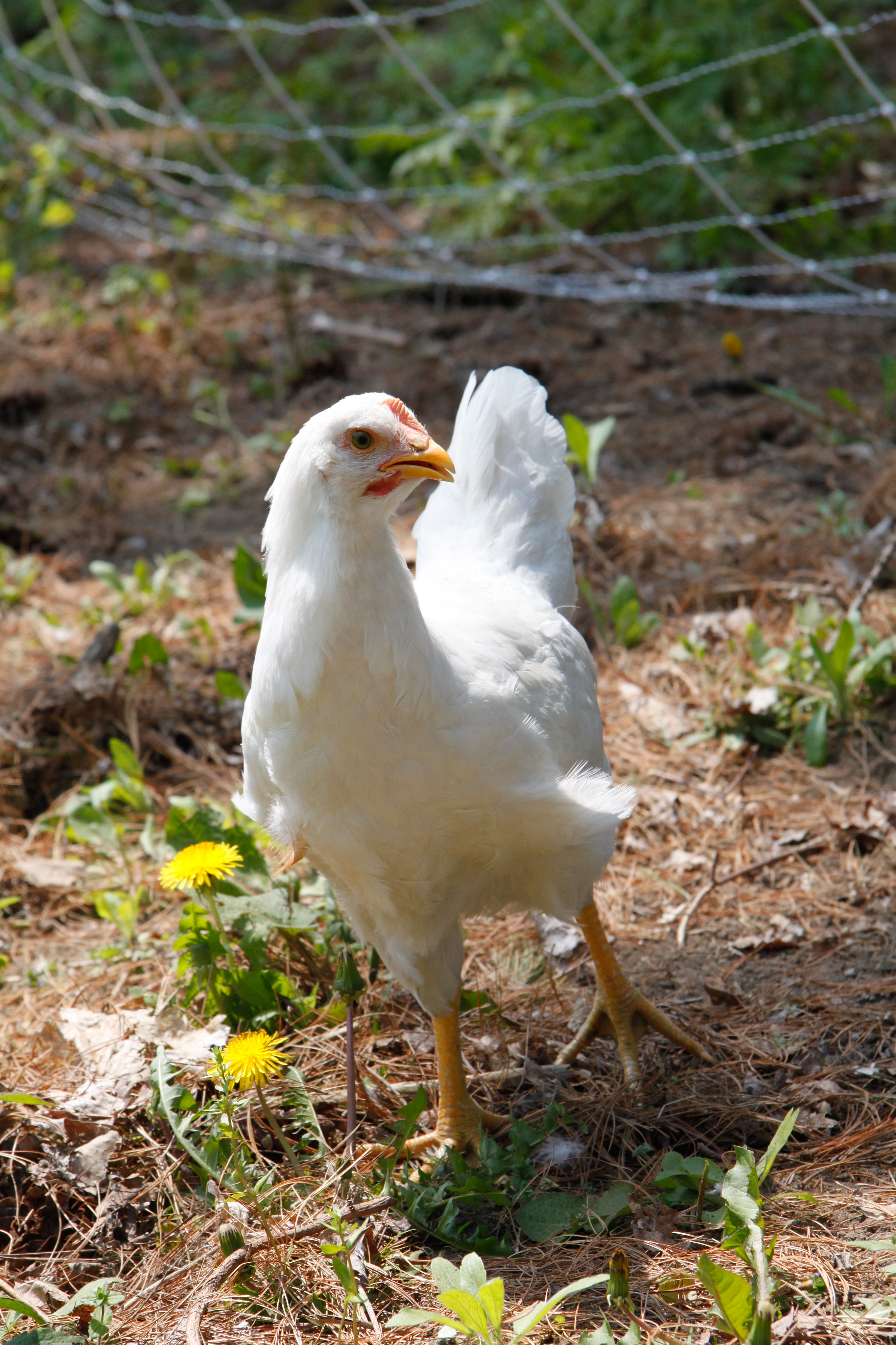 A White Plymouth Rock pullet at a farm in Massachusetts. In the background is electrified poultry netting.